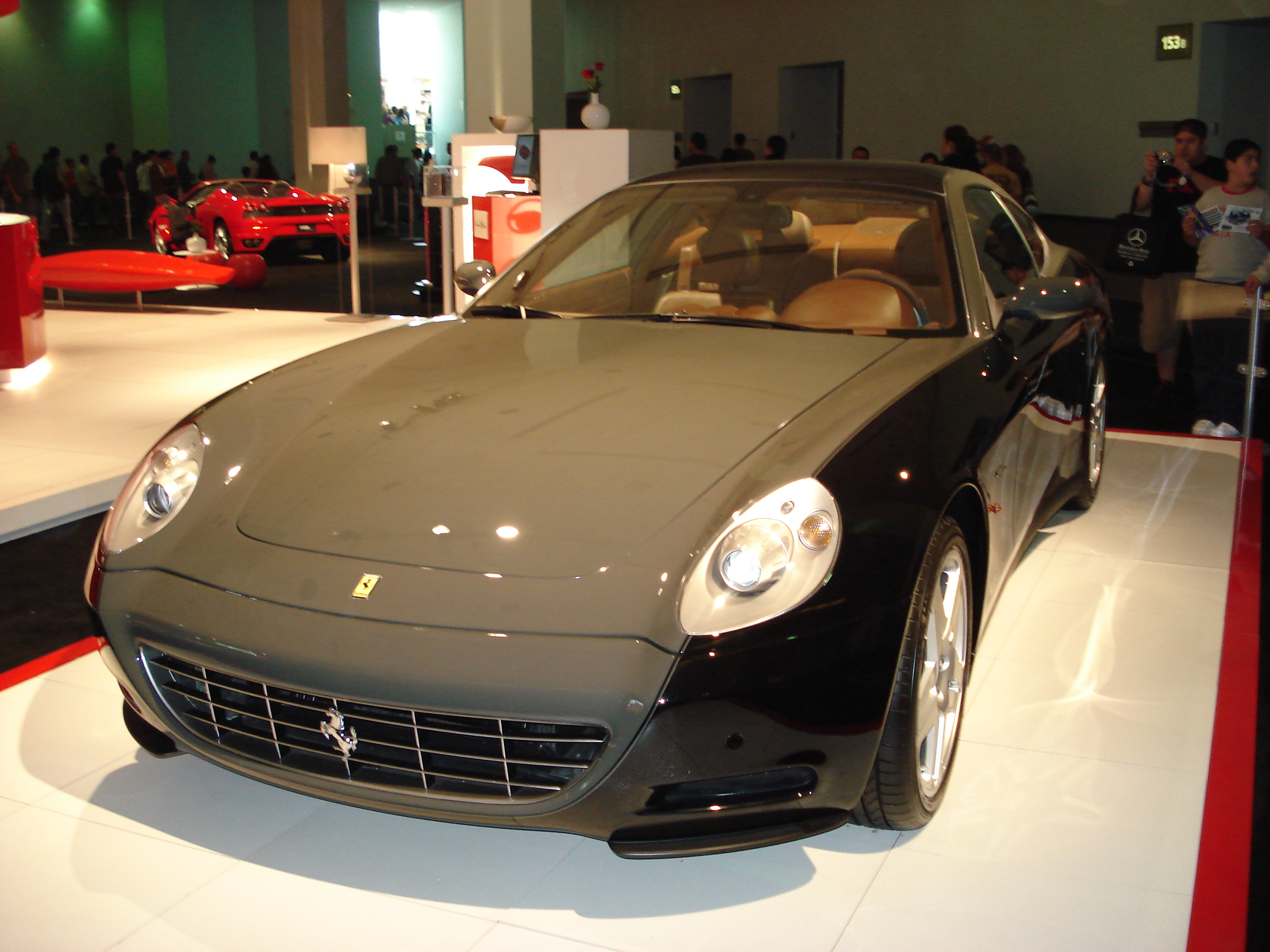 Ferrari 612 Scaglietti Sessanta Edition